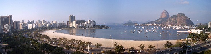 This image was copied from pt. The original description was